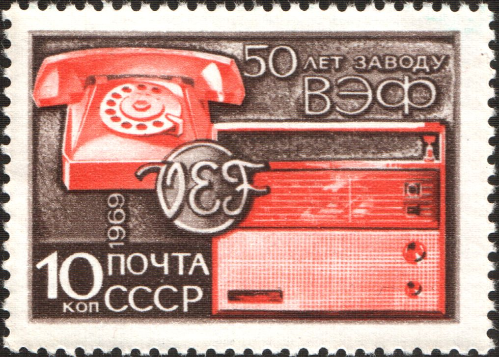 Postage stamp issued by the Soviet Union 1969 to commemorate the fiftieth anniversary of the telephone and radio factory VEF, Riga